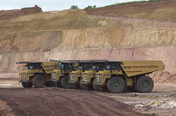 Trucks at the Yatela Mine in mali